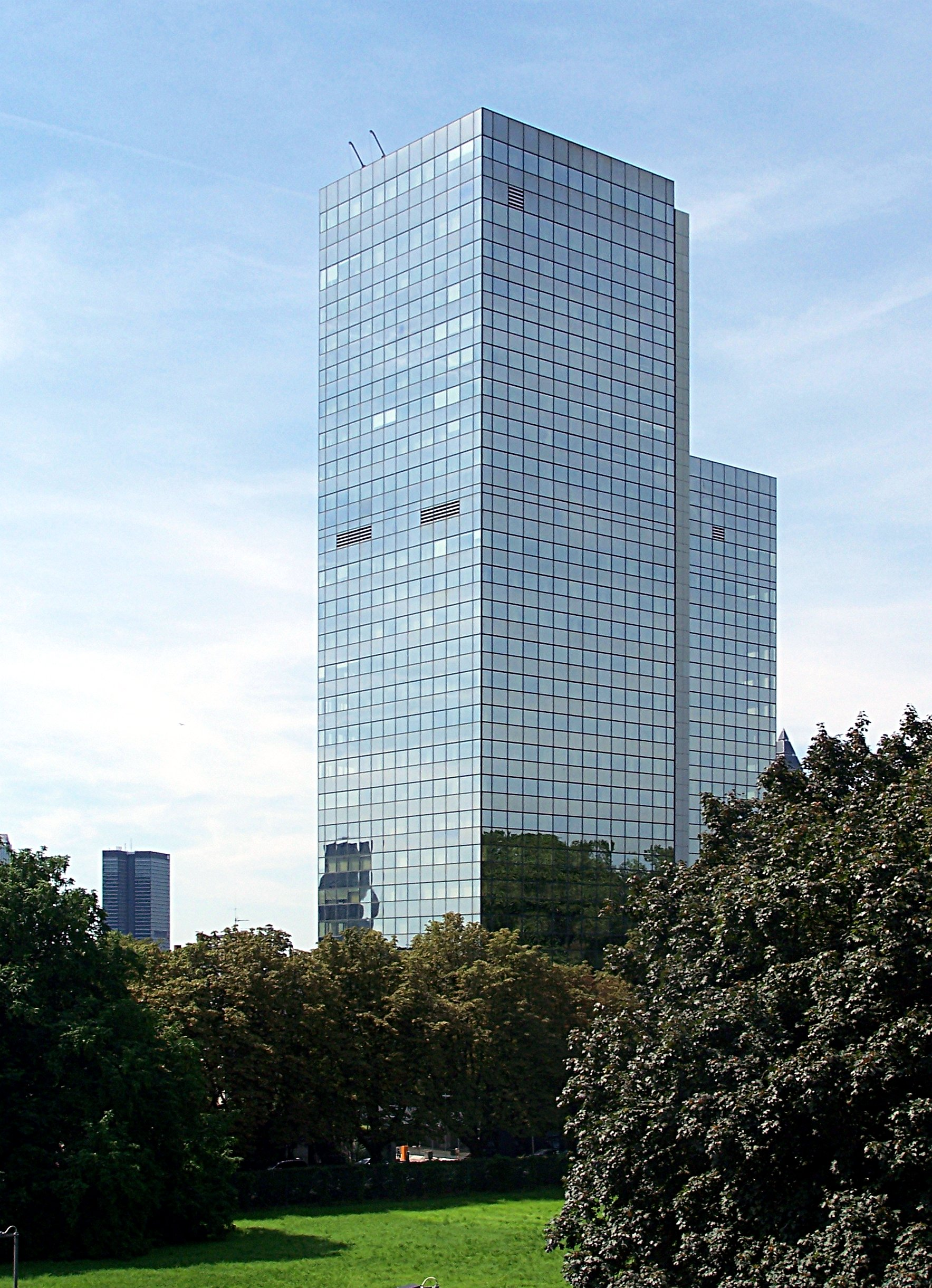 Hochhaus am Park, the skyscraper at the Grüneburgpark from north